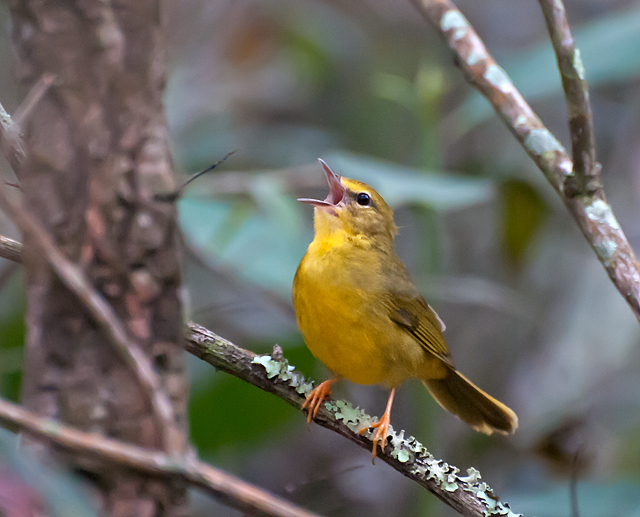 A Flavescent Warbler in Piraju, São Paulo, Brazil.